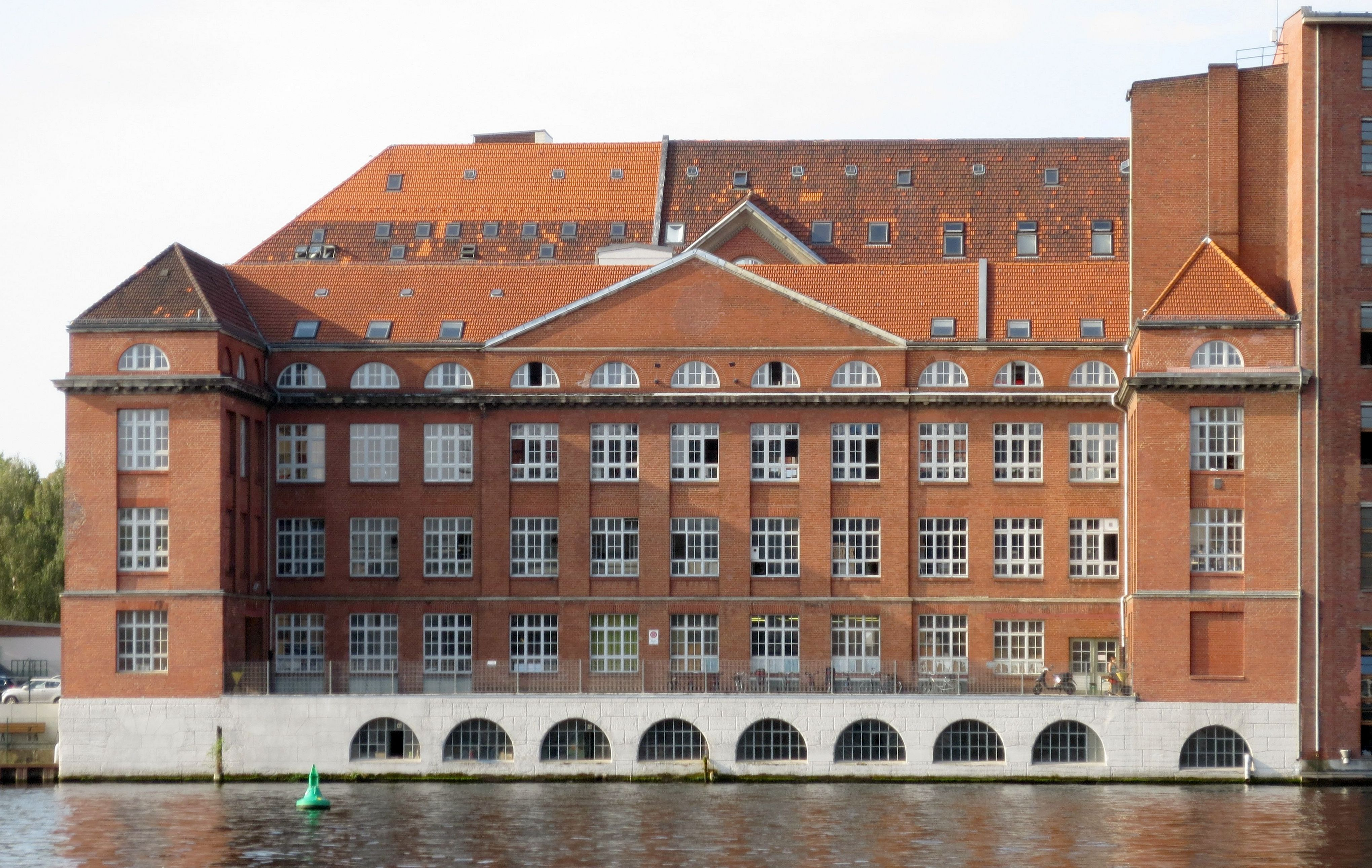 The Industriehaus Schlesische Brücke at Schlesische Straße No. 26 in Berlin-Kreuzberg, here the riverside facade seen from Osthafen in Berlin-Friedrichshain. The small businesses park was built from 1910 to 1913 by Wilhelm Peters and Alfred Grenander. It has been designated as a cultural heritage monument.